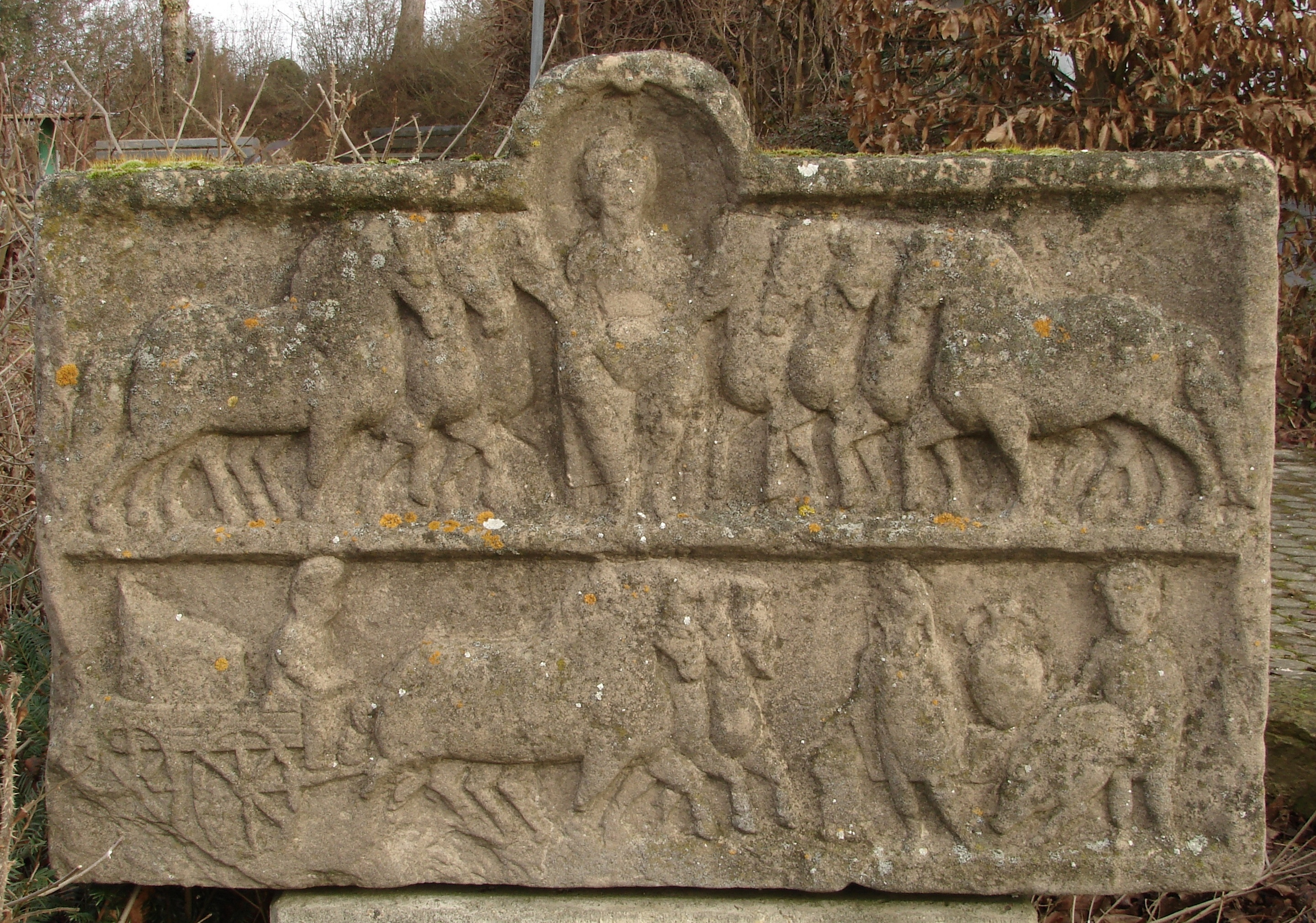 Freiberg am Neckar, relief plate devoted to the celtic goddess Epona, found 1583 in the ruins of a roman Villa Rustica